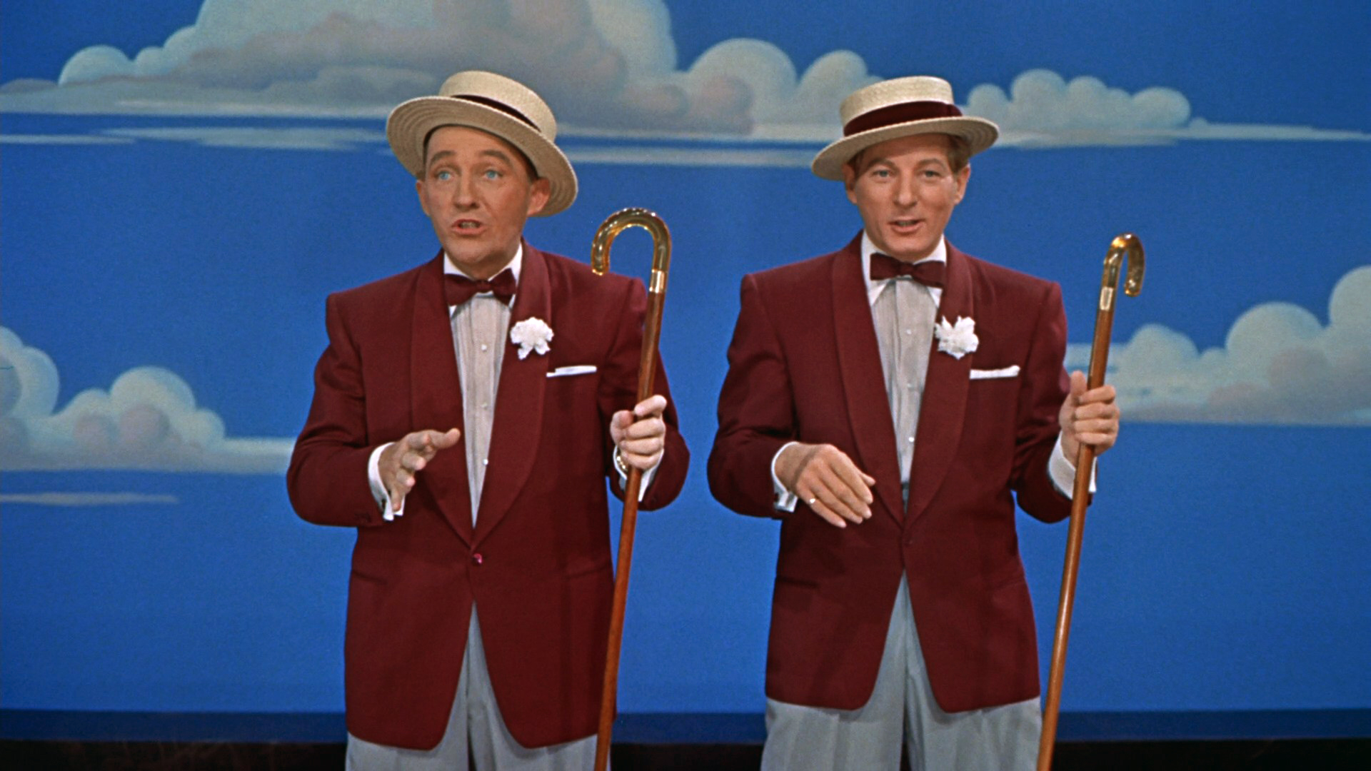 Cropped screenshot of Bing Crosby and Danny Kaye from the trailer for the film White Christmas